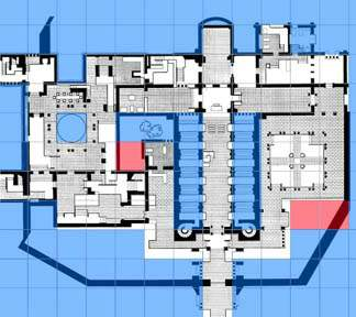 The map with hidden rooms in ' la abadía del crimen '